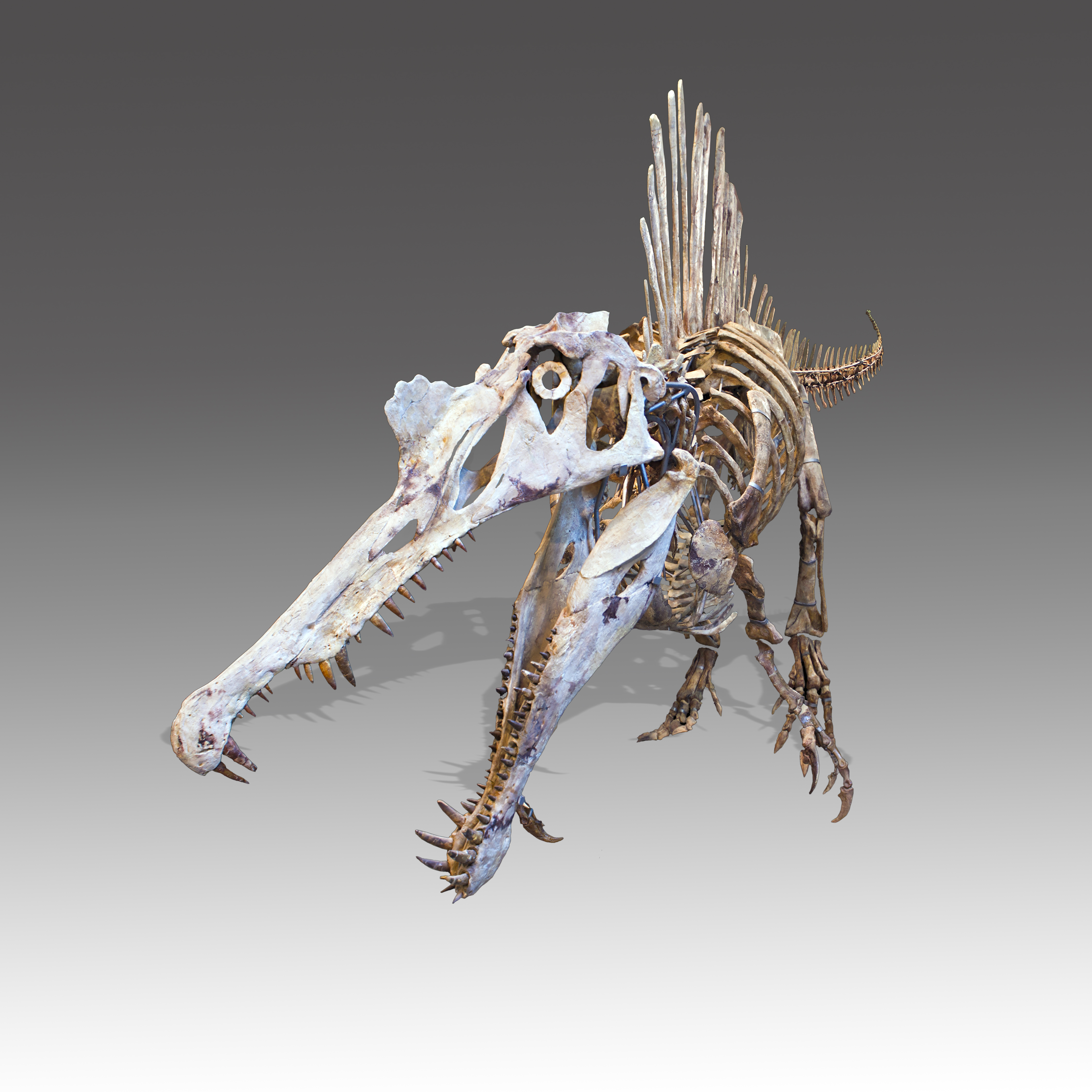 Spinosaurus aegyptiacus; Morroco; Private collection Stage: Albian-Cenomanian (112-93 Ma) Size: 8,40 m